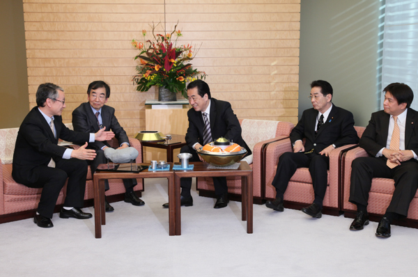 Jun'ichirō Kawaguchi, Professor of the Department of Space Systems and Astronautics, Institute of Space and Astronautical Science, and Akio Fujimura, Professor of the Department of Planetary Science, Institute of Space and Astronautical Science, talked with Naoto Kan, Prime Minister, with Yoshito Sengoku, Chief Cabinet Secretary, and Ryūzō Sasaki, Senior Vice-Minister of Education, Culture, Sports, Science and Technology, at the Prime Minister's Official Residence in Chiyoda Ward, Tōkyō Metropolis on December 9, 2010.